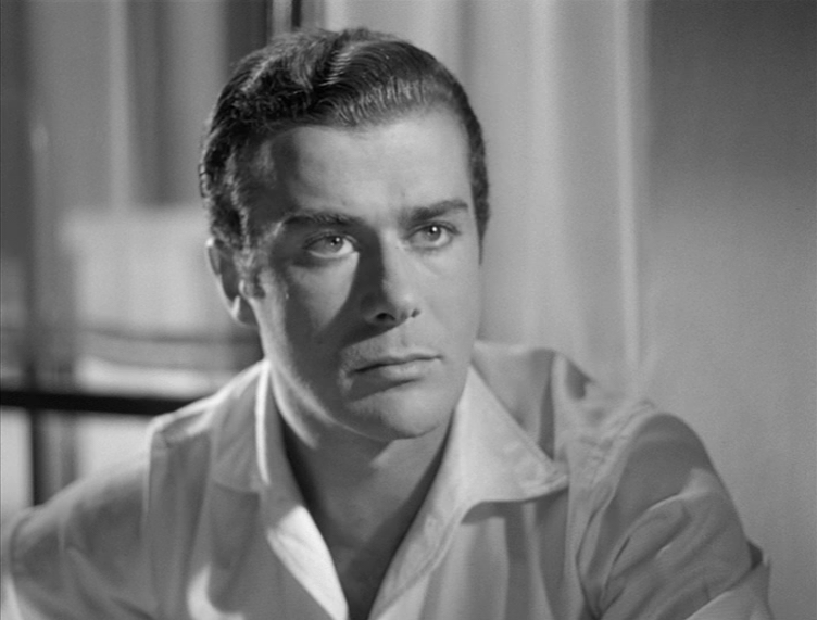 screenshot from the film Domenica d'agosto (1950)